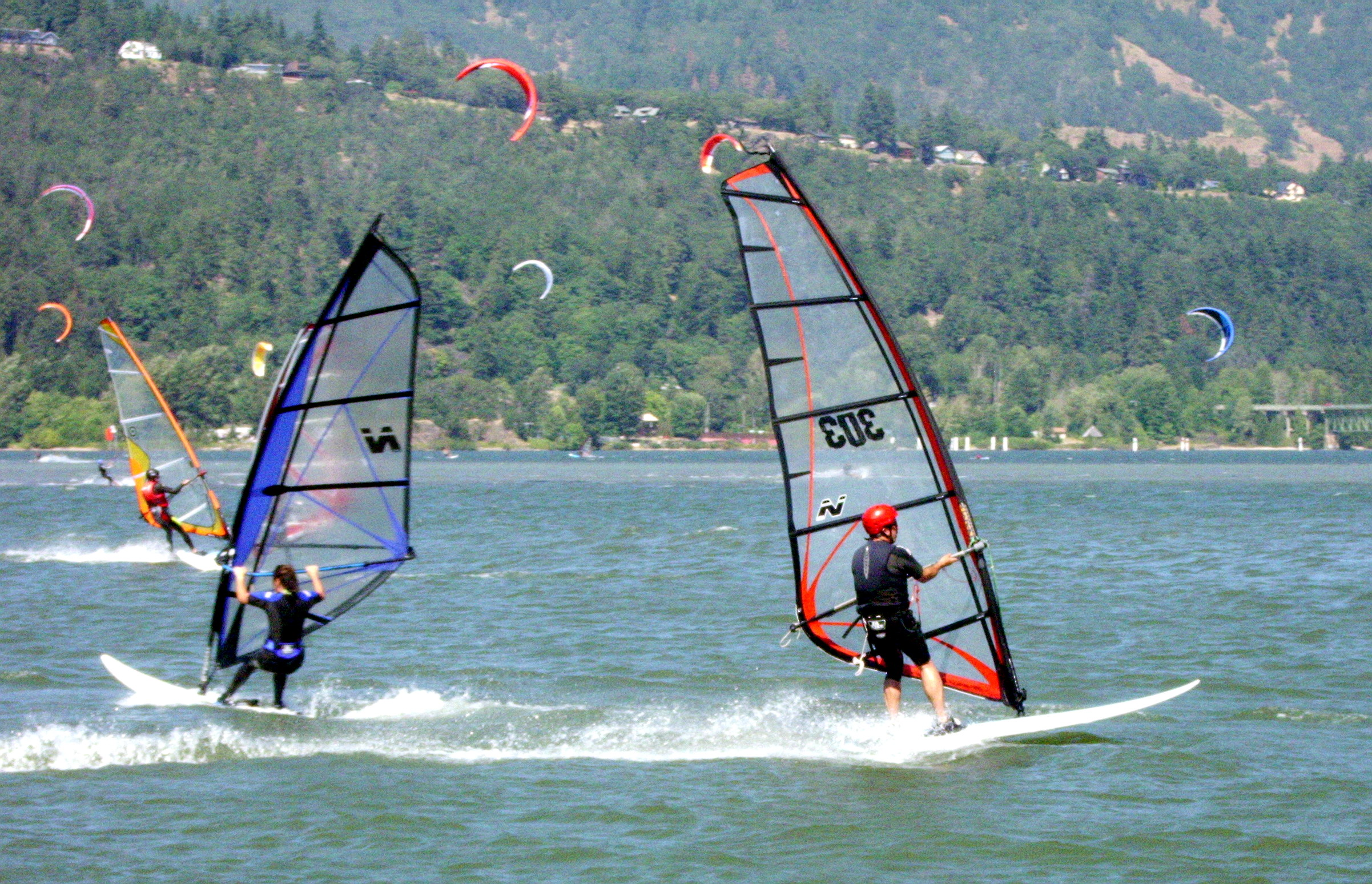 Windsurfing and kitesurfing on a fine summer day on the Columbia River at Hood River, Oregon. The Hood River bridge and Washington state across from the city are visible in the background.